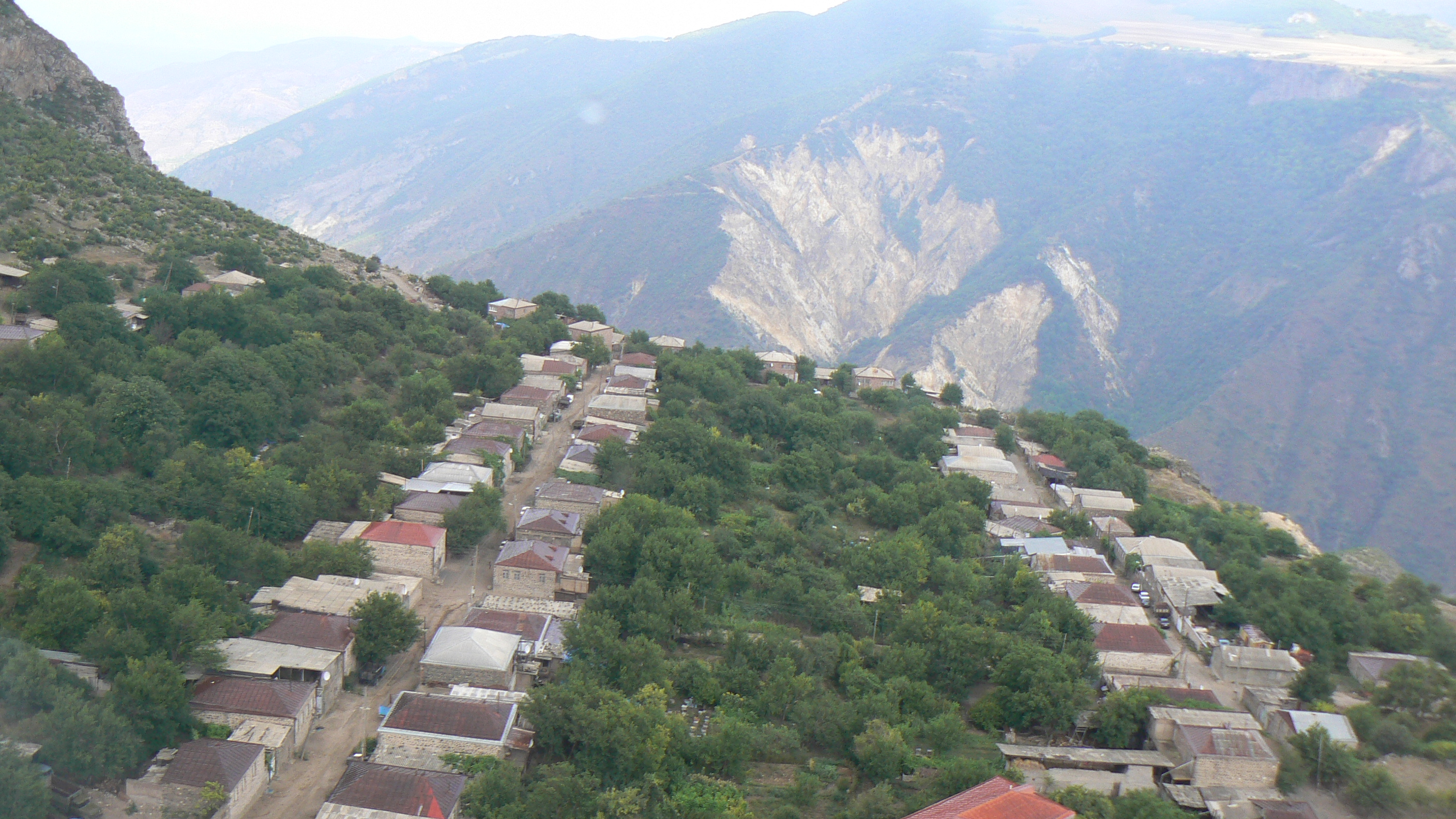 View of Halidzor village, Armenia from Wings of Tatev